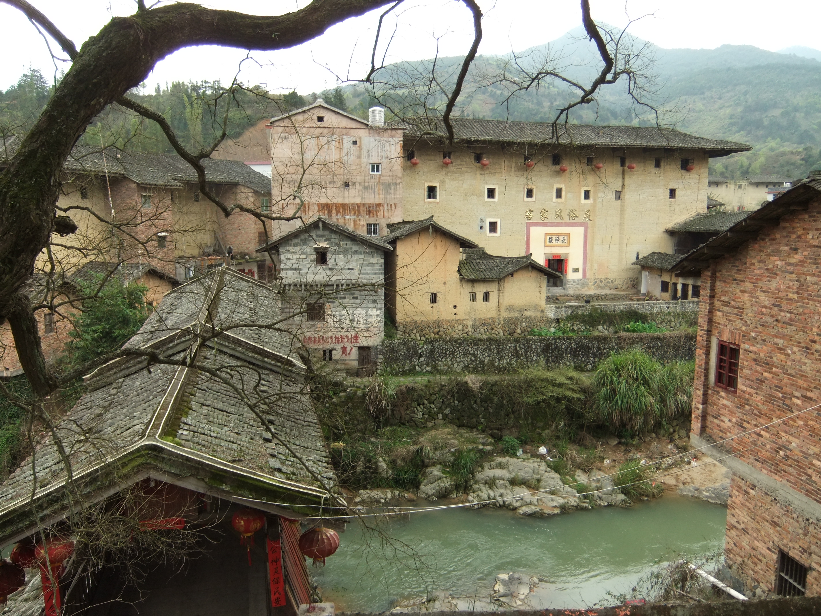 Changyuan Lou (长源楼) in Xinnan Village (新南村, New South Village), Hukeng Town. This is a large square tulou on the left (western) bank of the Nanxi Creek, some 200 m south-west of Yanxiang Lou. South of Changyuan Lou two more square tulous are located: Fuxin Lou (福心楼, center) and Futian Lou (福田楼, south). According to a sign, Changyuan Lou now houses an exhibit of Hakka folkways (客家风俗展). There is a nice bridge across the Nanxi Creek in front of them.